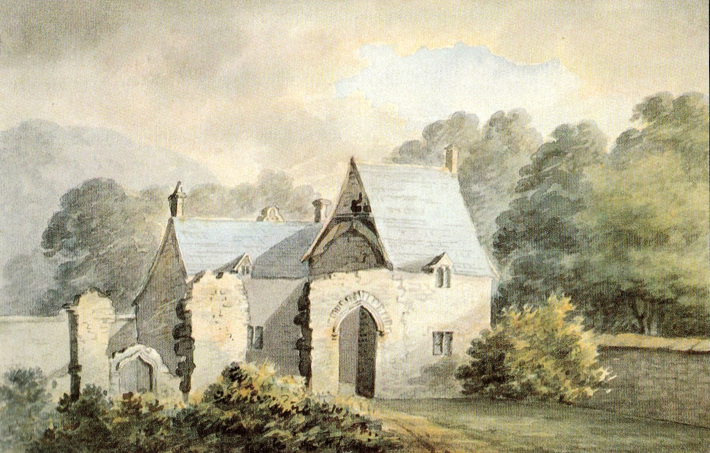 Ashton House, Ashton, Devon; ancient seat of the Chudleigh family (Chudleigh Baronets). Watercolour by Rev. John Swete (d.1821), Devon Record Office 564M/F5/131